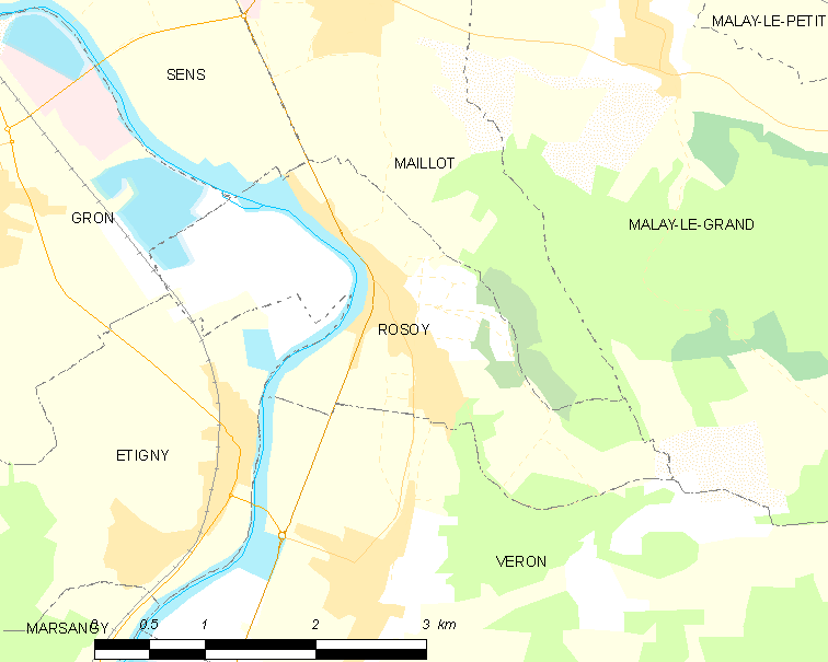 Map of French municipality Rosoy